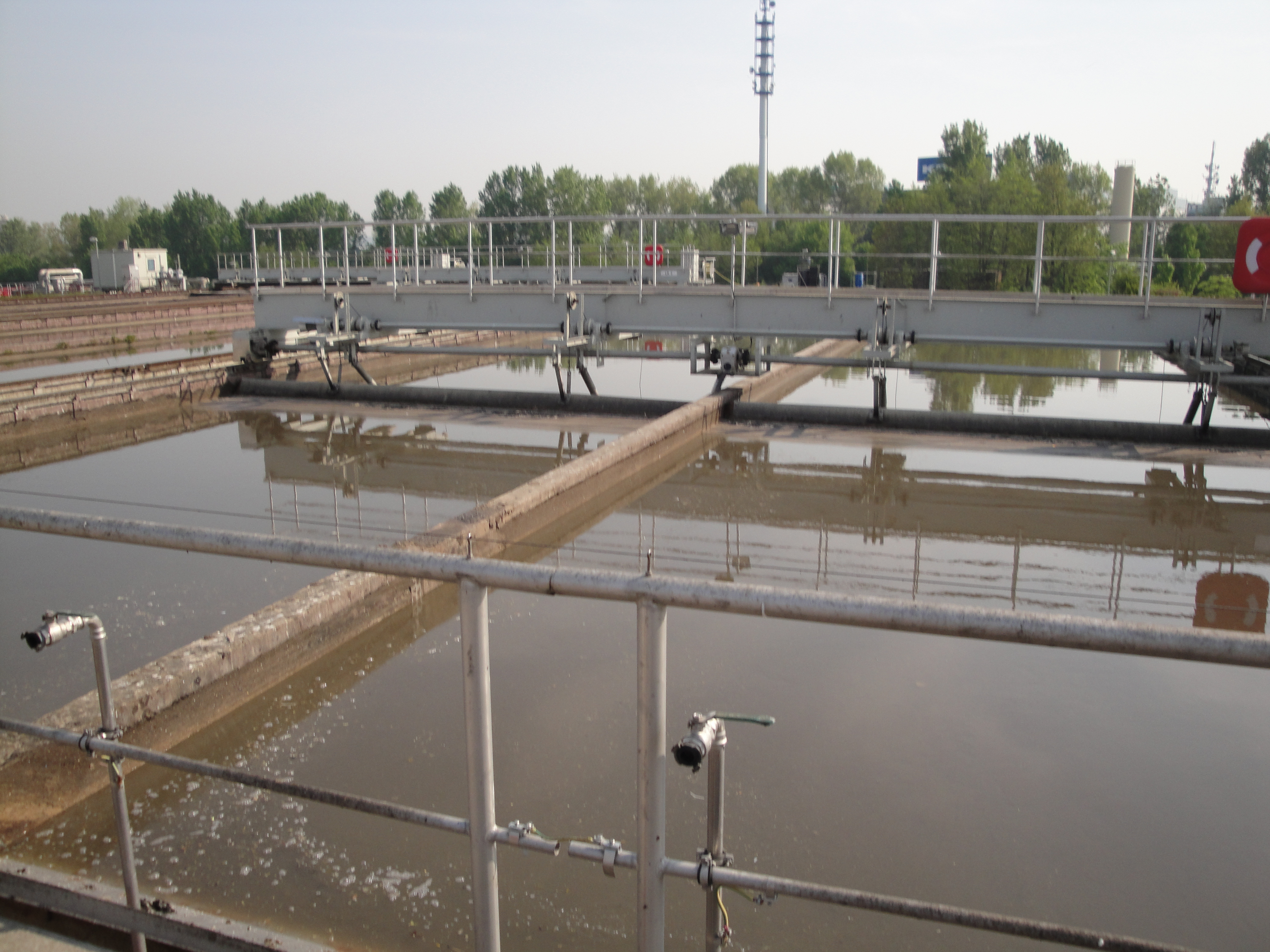 Kläranlage Dresden Kaditz - Wastewater treatment plant in Dresden, Saxony